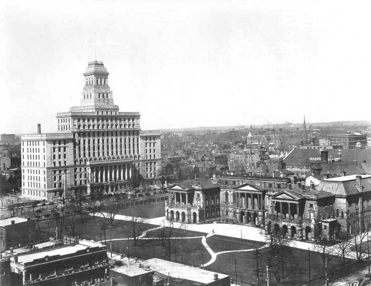 View of Canada Life Building and Osgoode Hall. (Toronto, Canada)